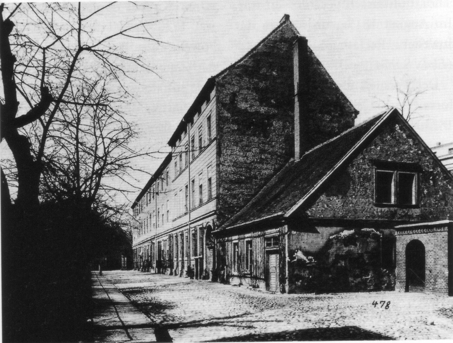 Hospital of the French community in Berlin.